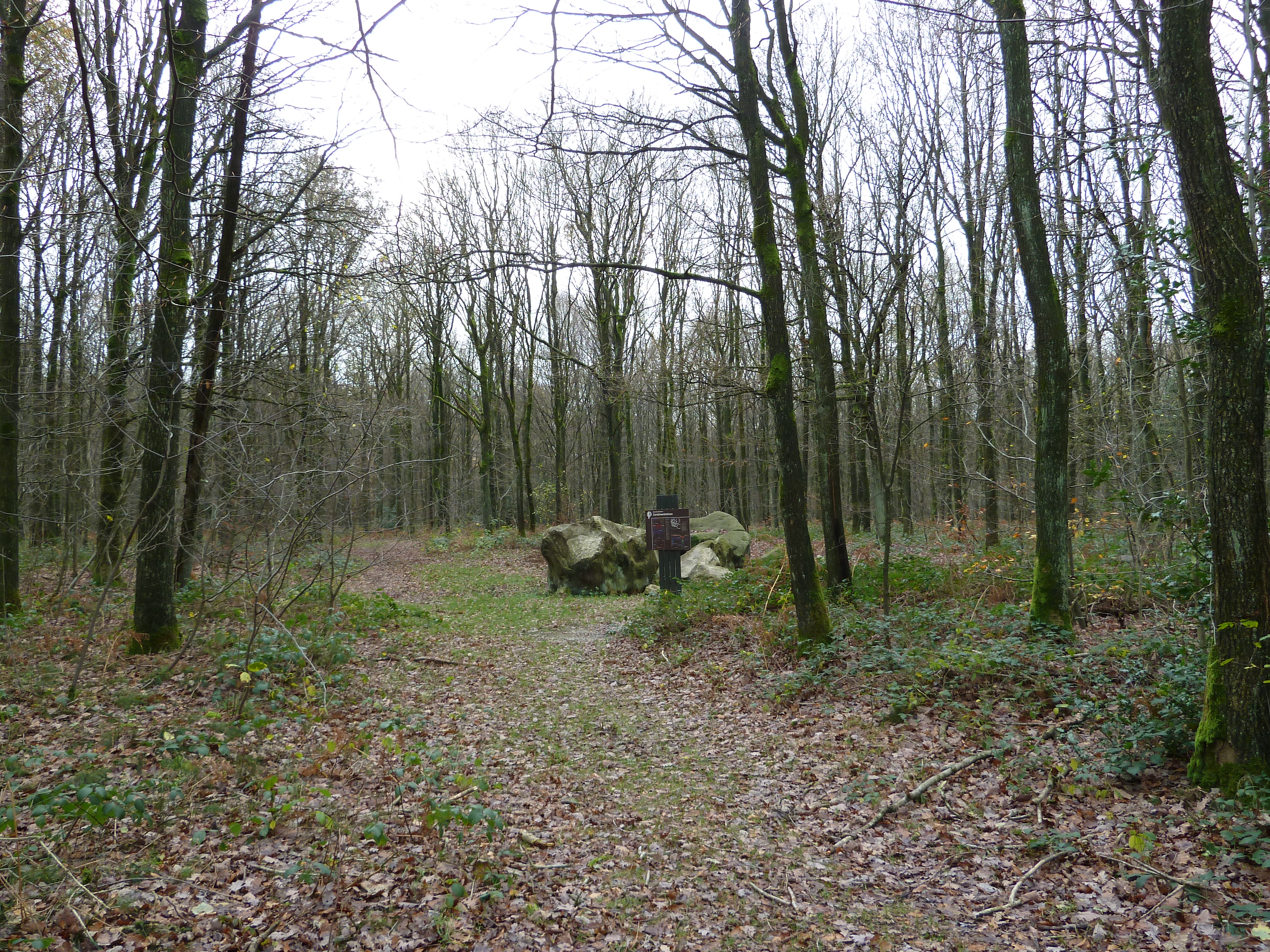 Sandstone blocks in the Vijlenerbossen, Vaals, Limburg, the Netherlands